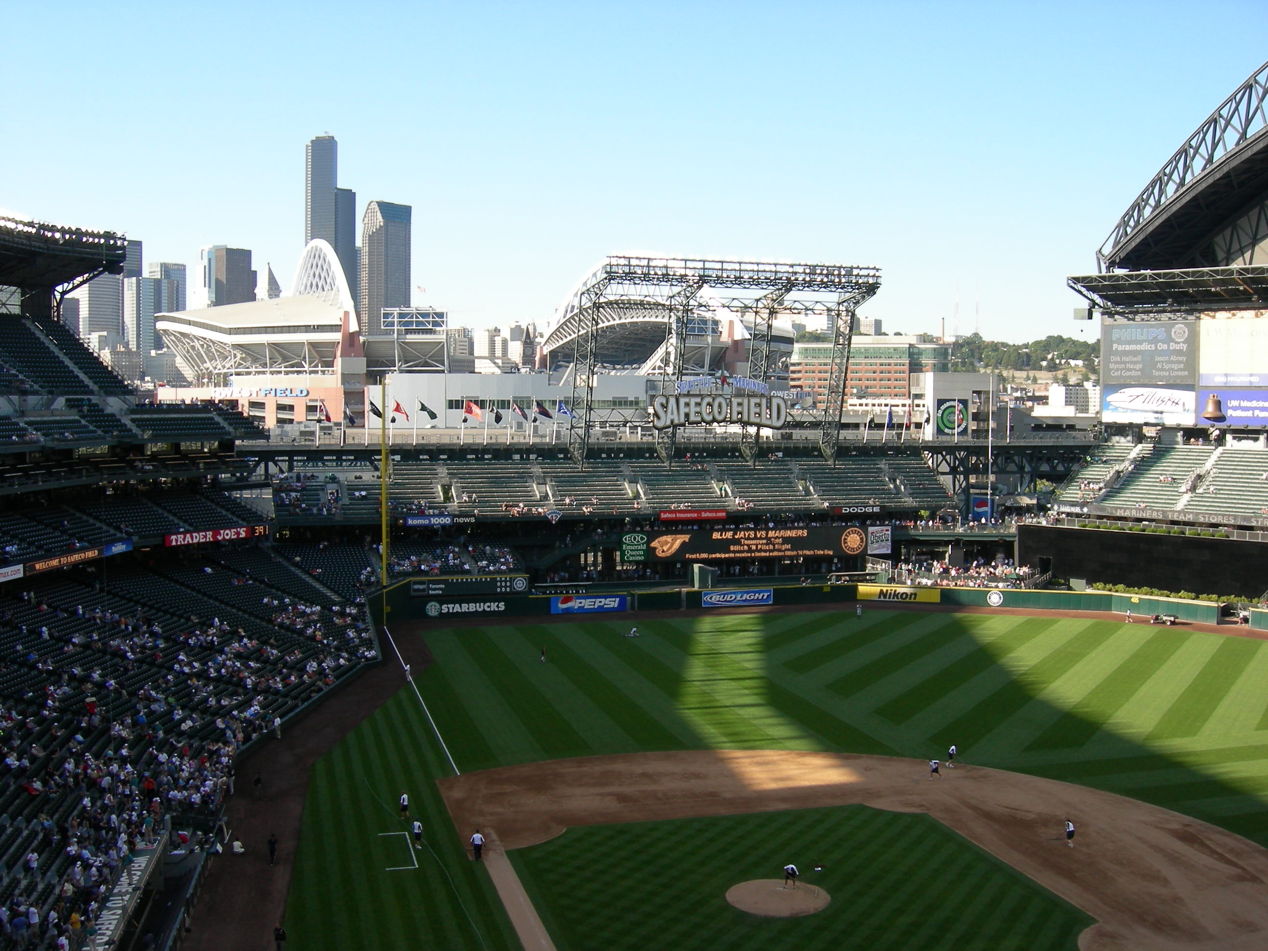 Looking at Qwest (football) Field and Downtown Seattle from the Safeco Field stands